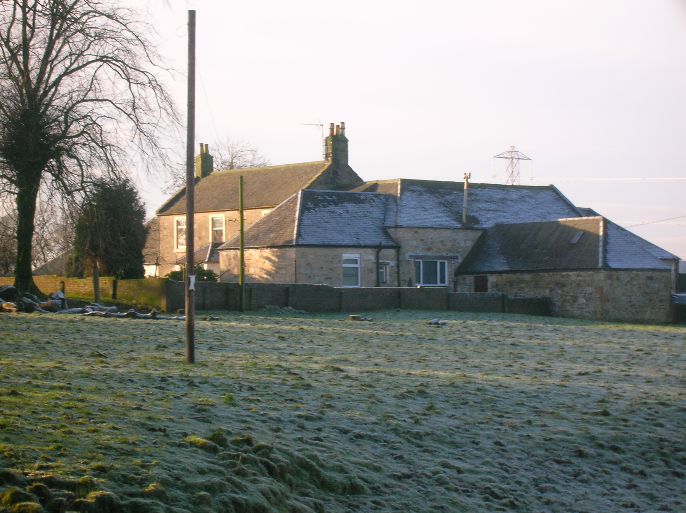 Roughwood Farm, Kilbirnie, North Ayrshire, Scotland